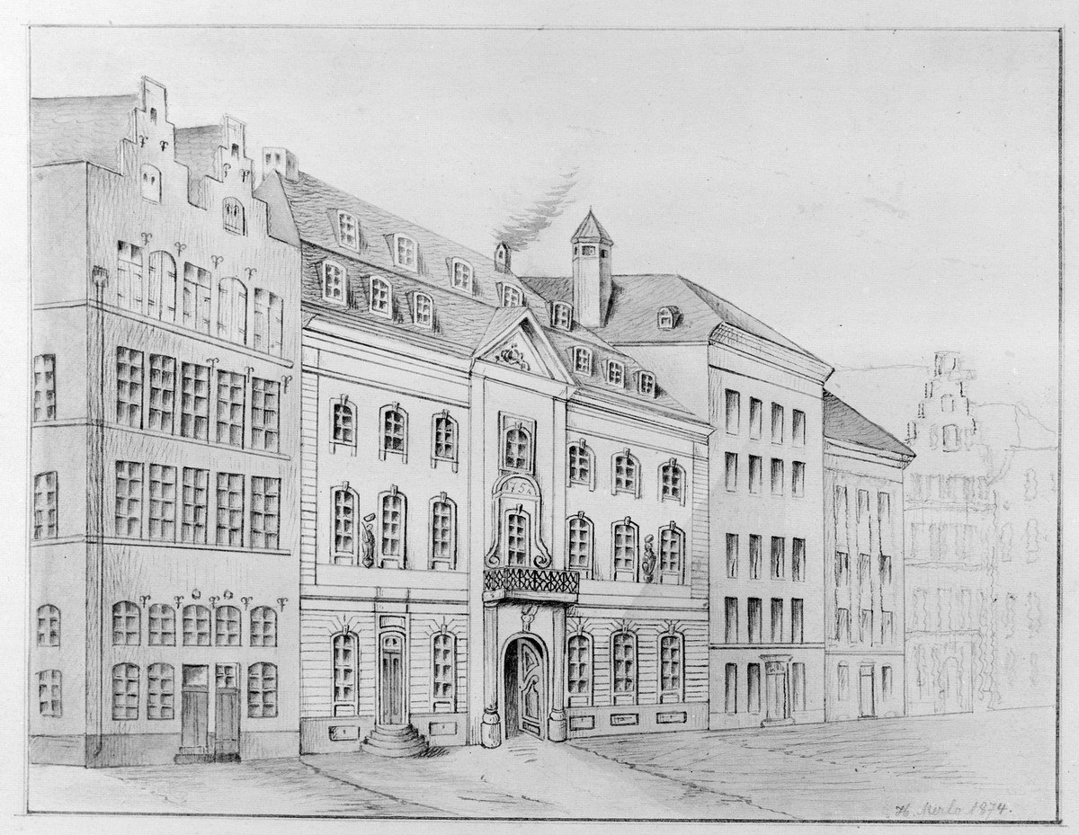 Merlo, Johann Jakob, Am Hof 20-22 (Brabanter Hof), Feder&aquarelliert, rba_166841.